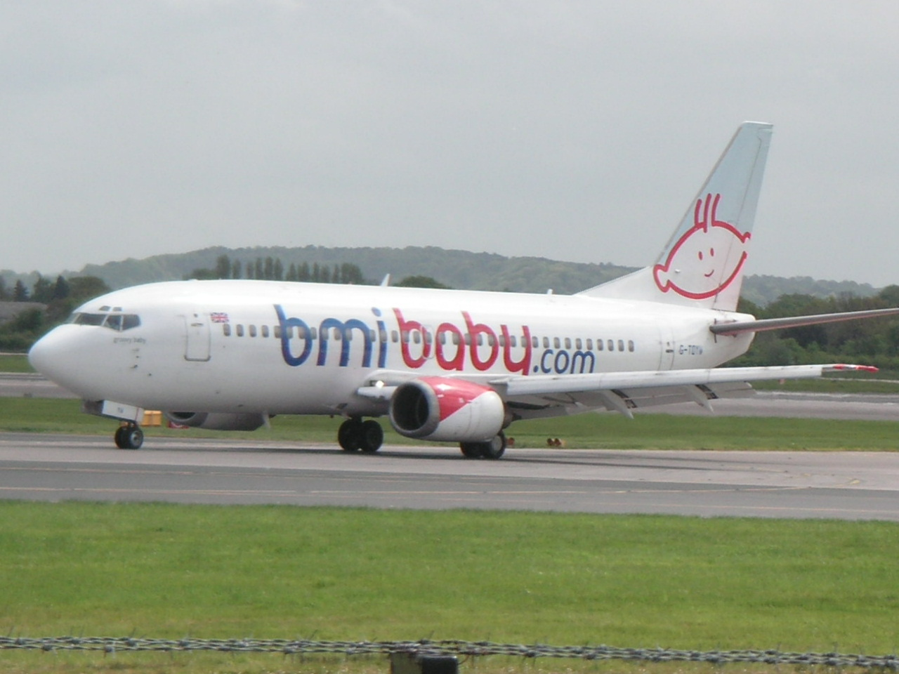 bmibaby 737-300 taxis into Manchester Airport